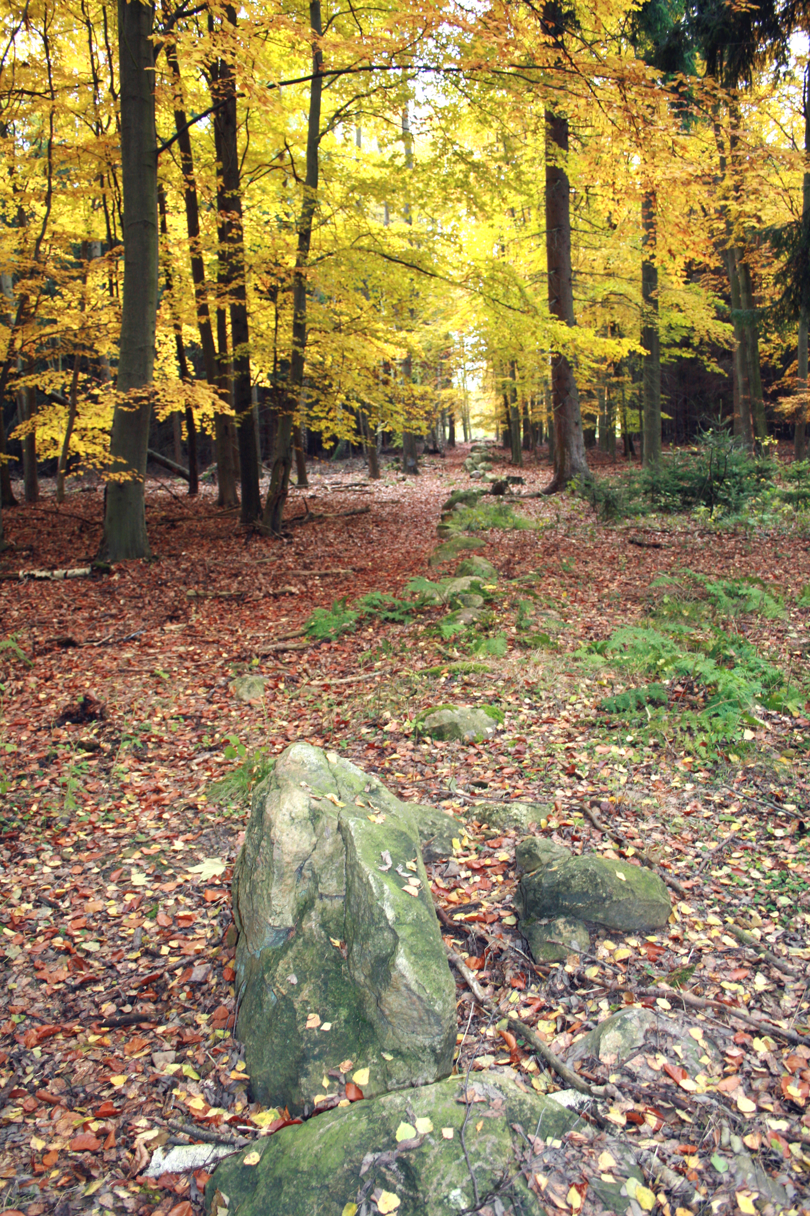 Stone rows near Kounov in central Bohemia, Czech Republic